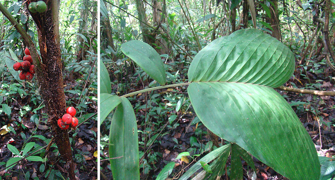 An understory palm of the lowlands from Honduras to Ecuador. Photo from Indio Maiz Reserve, Nicaragua In context at